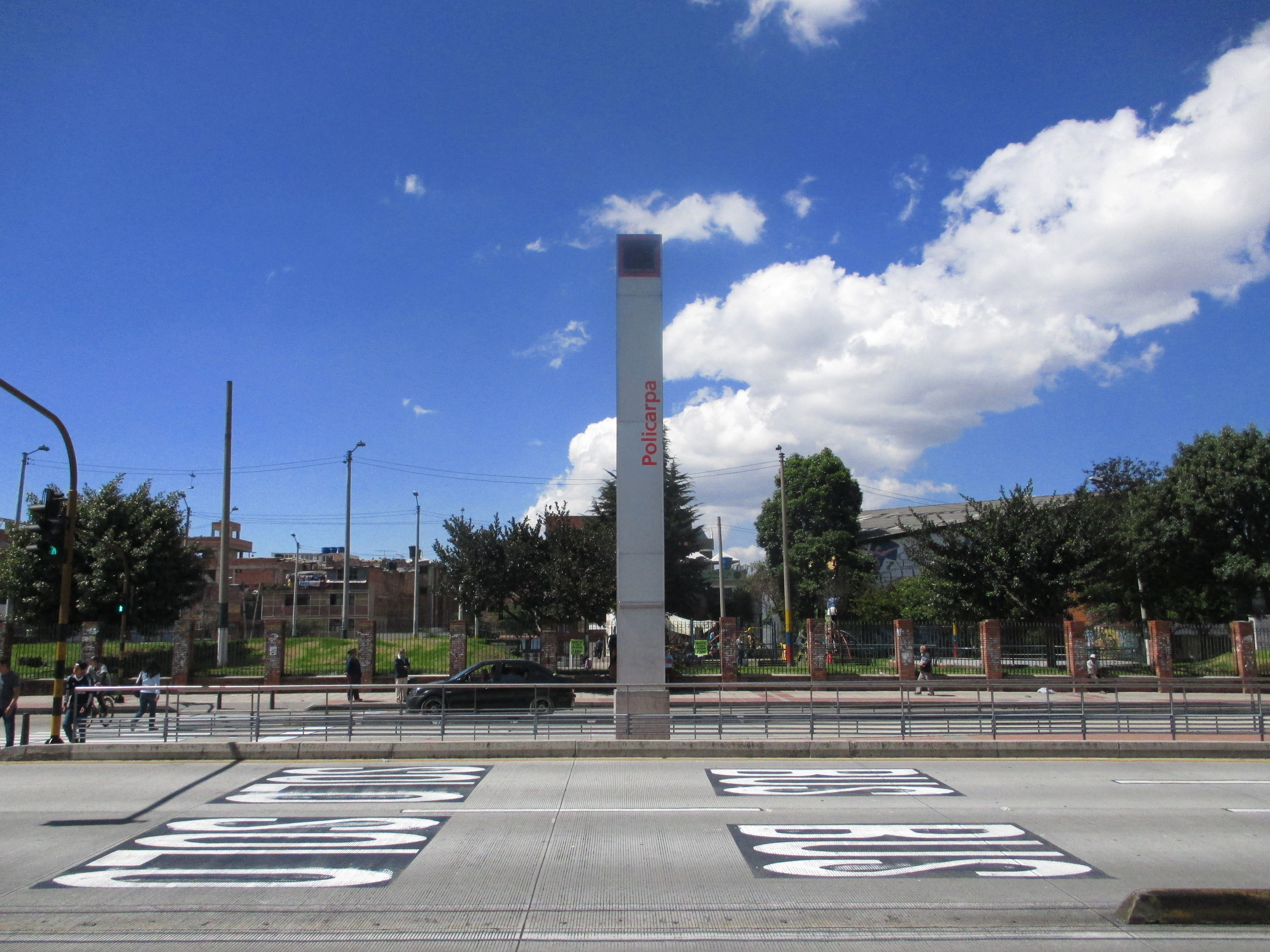 Bogotá